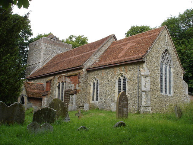 Church of St Mary in Flowton, Suffolk, England. A Grade I listed medieval church.